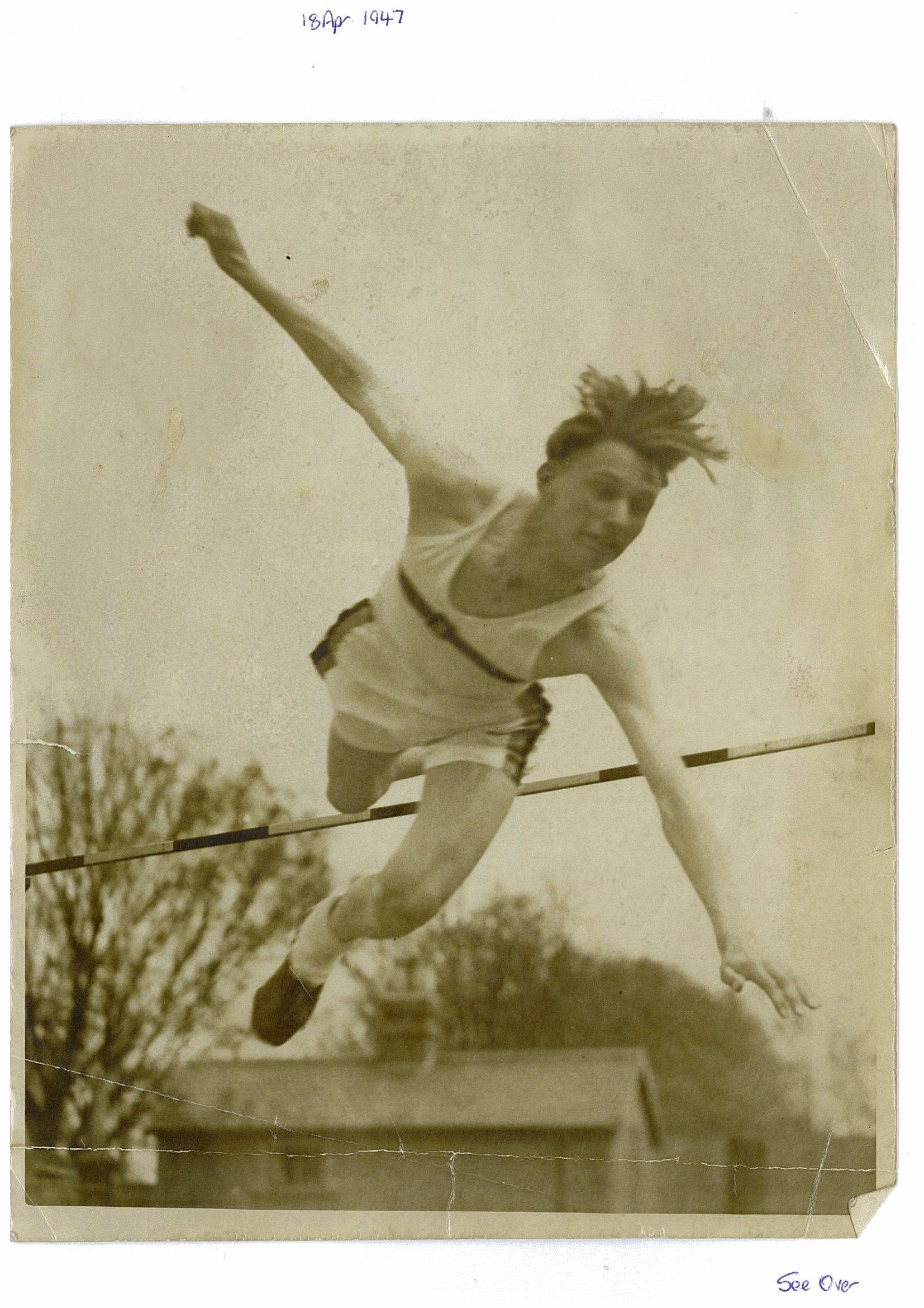 Peter Wells Athlete 1947 04 18 - London AC Public Schools Challenge Cup - Record - 6ft 0in